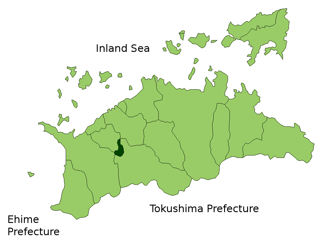 Map of Kagawa Prefecture highlighting Kotohira town. Borders of map as of October, 2006. (blank map used from [1]) See also Image:KagawaMapCurrent.png